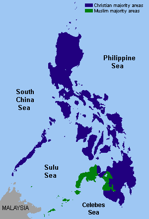 Map of the Philippines divided between the Christian and Muslim majority.